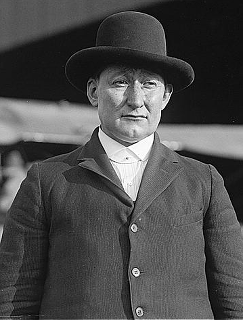 Manuel Herrick, US Representative from Oklahoma